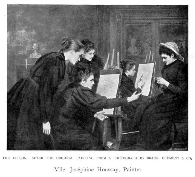 1905 print after page of Women painters of the world, from the time of Caterina Vigri, 1413-1463, to Rosa Bonheur and the present day, by Walter Shaw Sparrow, The Art and Life Library, Hodder & Stoughton, 27 Paternoster Row, London